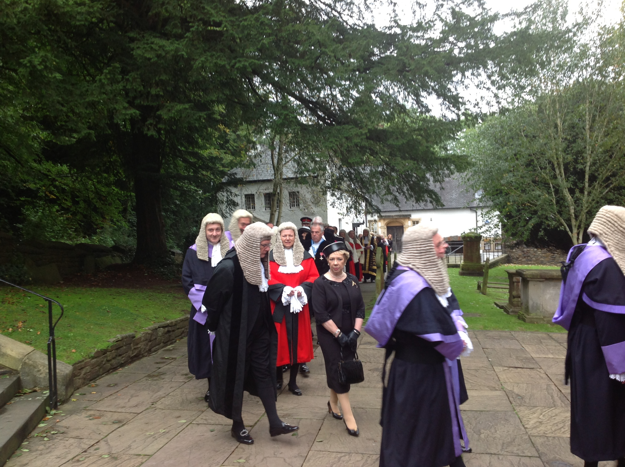 The Legal Service for Wales at Llandaff Cathedral. 13 October 2013. The judge in the red robes is the Recorder of Cardiff, Her Honour Judge Eleri Rees; on the far left is His Honour Judge Andrew Keyser QC, Mercantile judge for Wales.